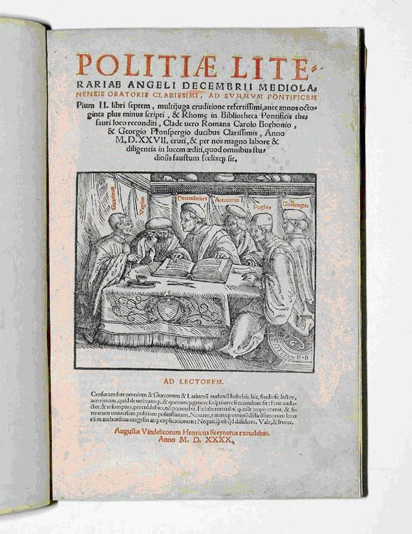 An illustration from a work written by Italian author Angelo Decembrio, first published in 1540 after he died.